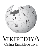 A logo for Wikipedia in the Uzbek language.